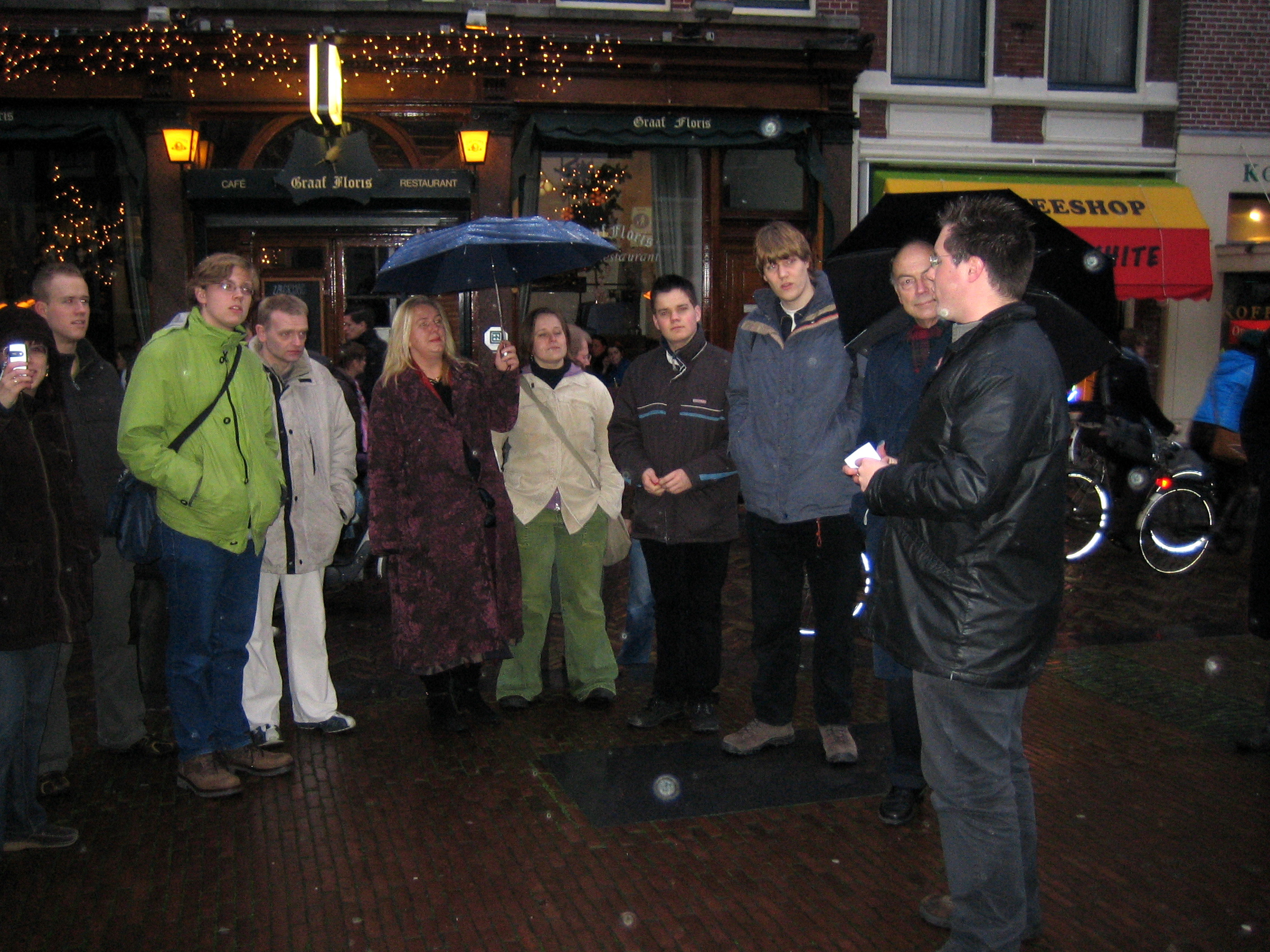 Steinbach - Tourguide in Utrecht.jpg Steinbach was fulfulling the role of tourguide during a walk in Utrecht. Taken during a city walk at a wiki meet in Utrecht, Netherlands, on Saturday 6 January 2007